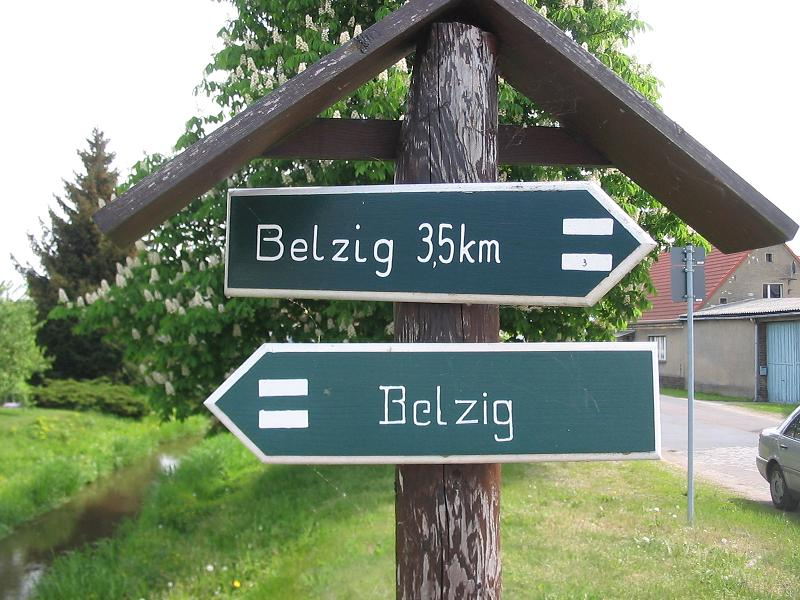 All roads lead to Belzig ... in Schwanebeck. Schwanebeck is an incorporated part of the town Belzig in Brandenburg, Germany.